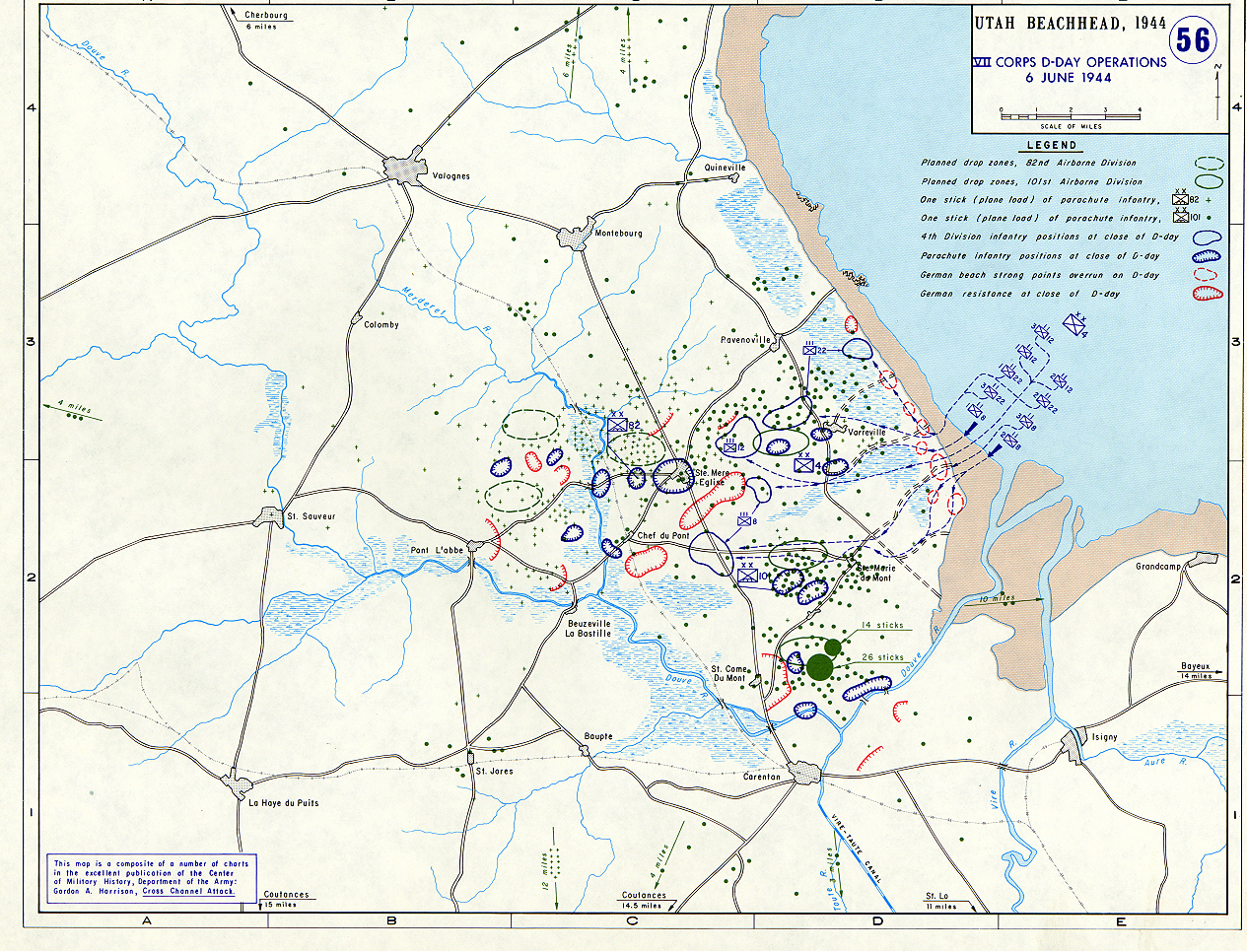 Map of positions at Utah Beach and the Cotentin Peninsula at close of D-Day, 6 June 1944